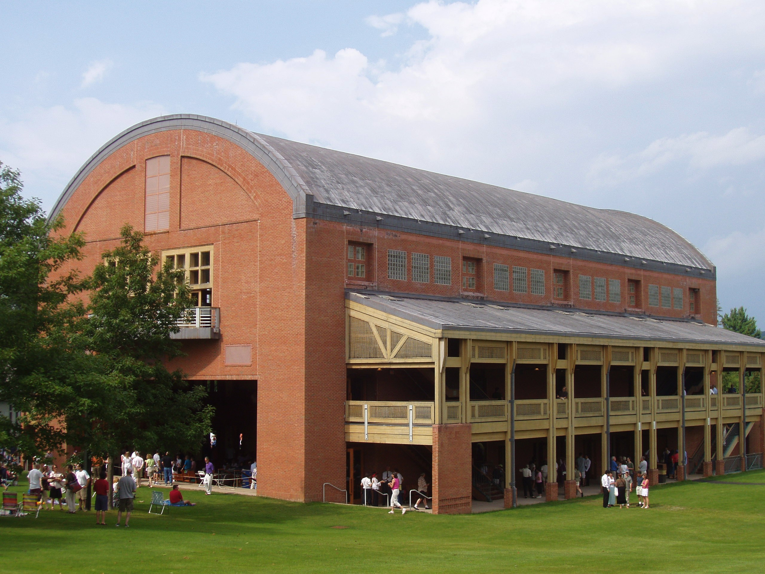 Seiji Ozawa Hall (exterior), Tanglewood, Lenox, Massachusetts, USA. Designed by William Rawn Associates, Architects, Inc.